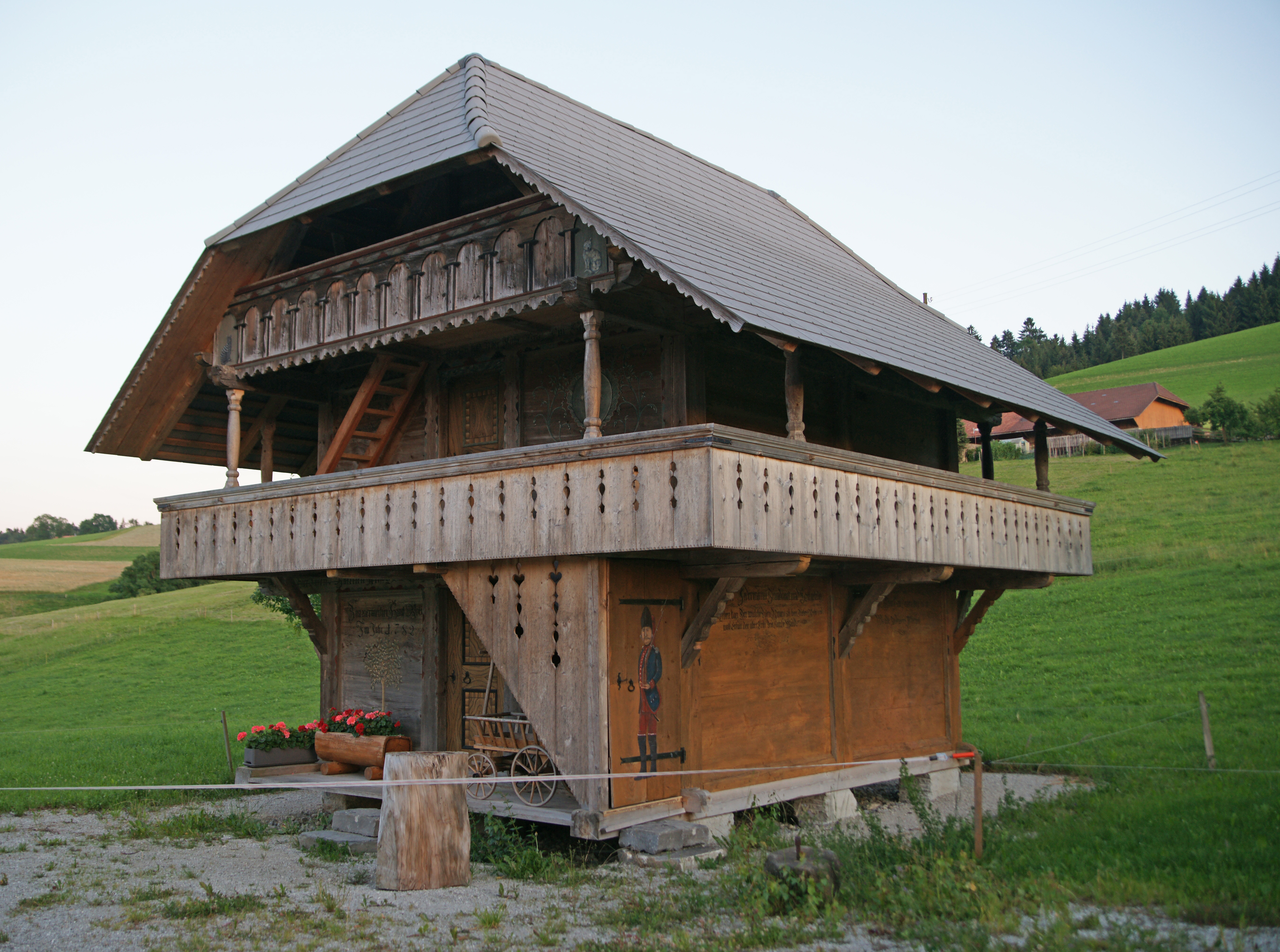 Swiss inventory of cultural property of national significance: memory, Horbermatt, Oberbalm (BE), 597 156/191 378, Category: A, Type: Residential buildings and ancillary facilities, rural small buildings (storage, stove houses, wash houses) (Google machine translation)